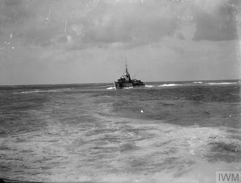 ANTI-SUBMARINE PATROL. 25 DECEMBER 1941, ON BOARD THE DUTCH DESTROYER ISAAC SWEERS, AT SEA IN THE EASTERN MEDITERRANEAN. HMS KINGSTON turning at speed during anti-submarine patrol.